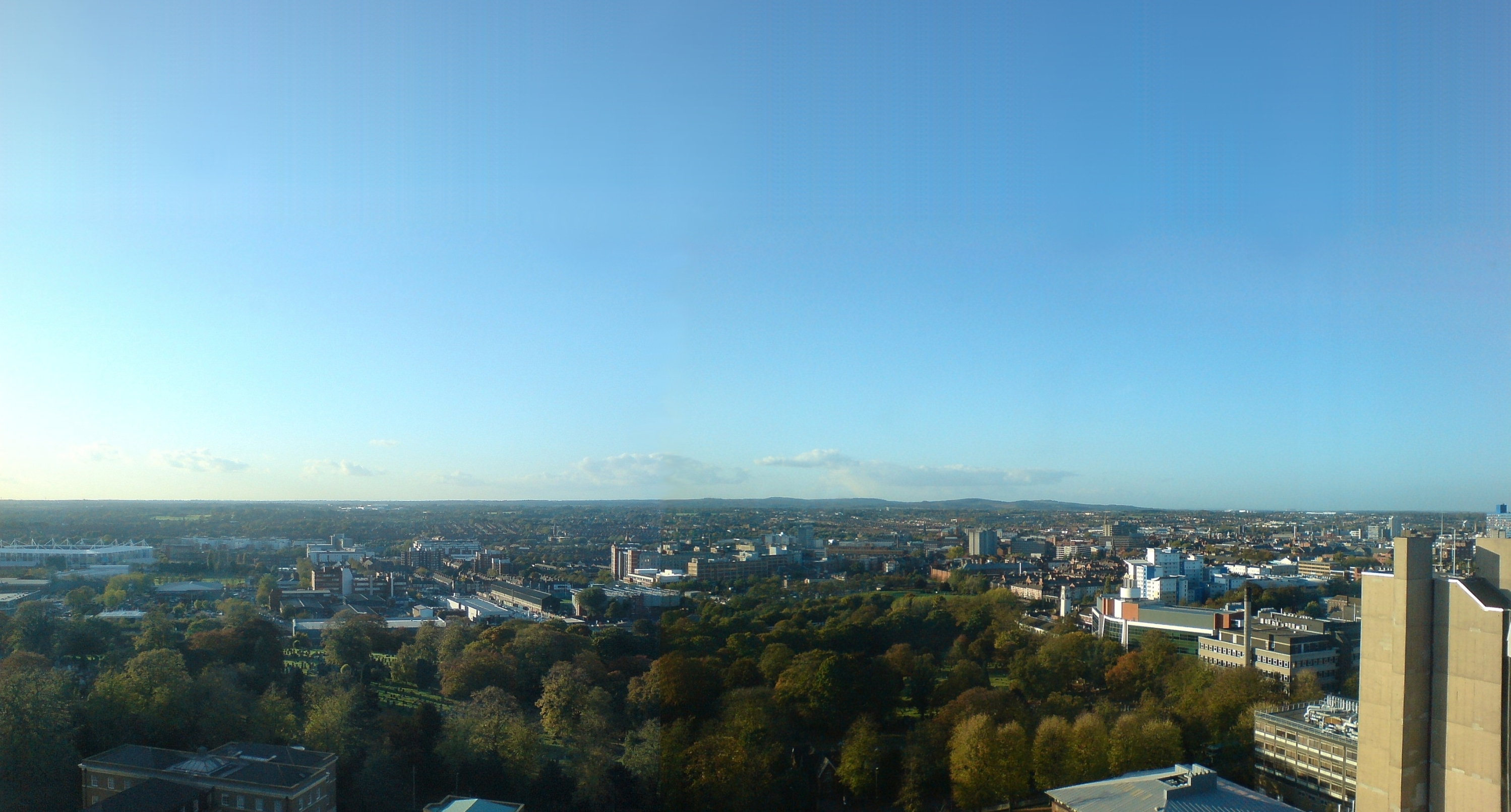 Self-made panorama of Leicester as viewed looking West to North from the top (18th) floor of the Attenborough Tower at the University of Leicester. Landmarks visible from left to right include the Walkers Stadium (Leicester City FC), Welford Road (Leicester Tigers RFC), Leicester Royal Infirmary, New Walk Centre (Leicester City Council), St. George's Tower and various buildings associated with the University of Leicester.